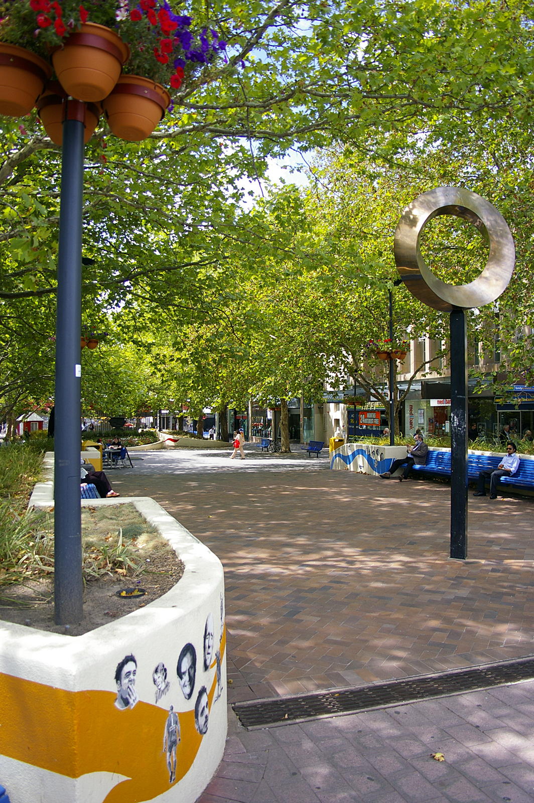 Petrie Plaza in Canberra City, Australian Capital Territory, with sculpture "Eternity" by John Robinson (1981)